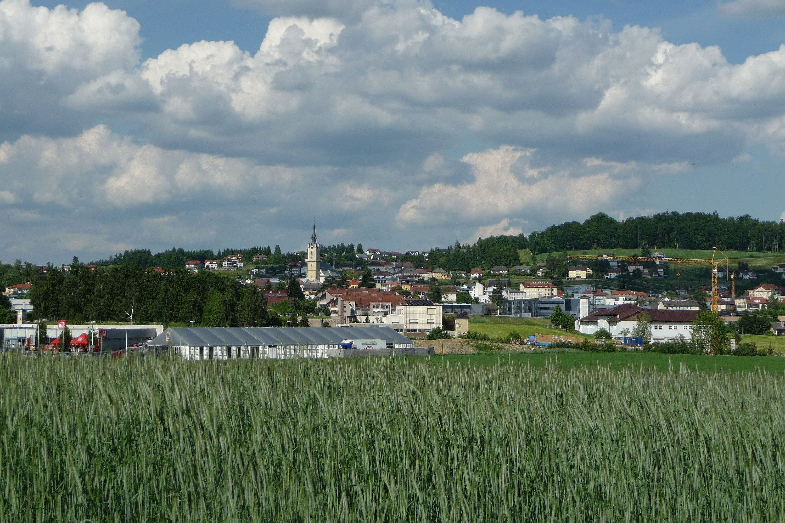 View of Rohrbach in Upper Austria